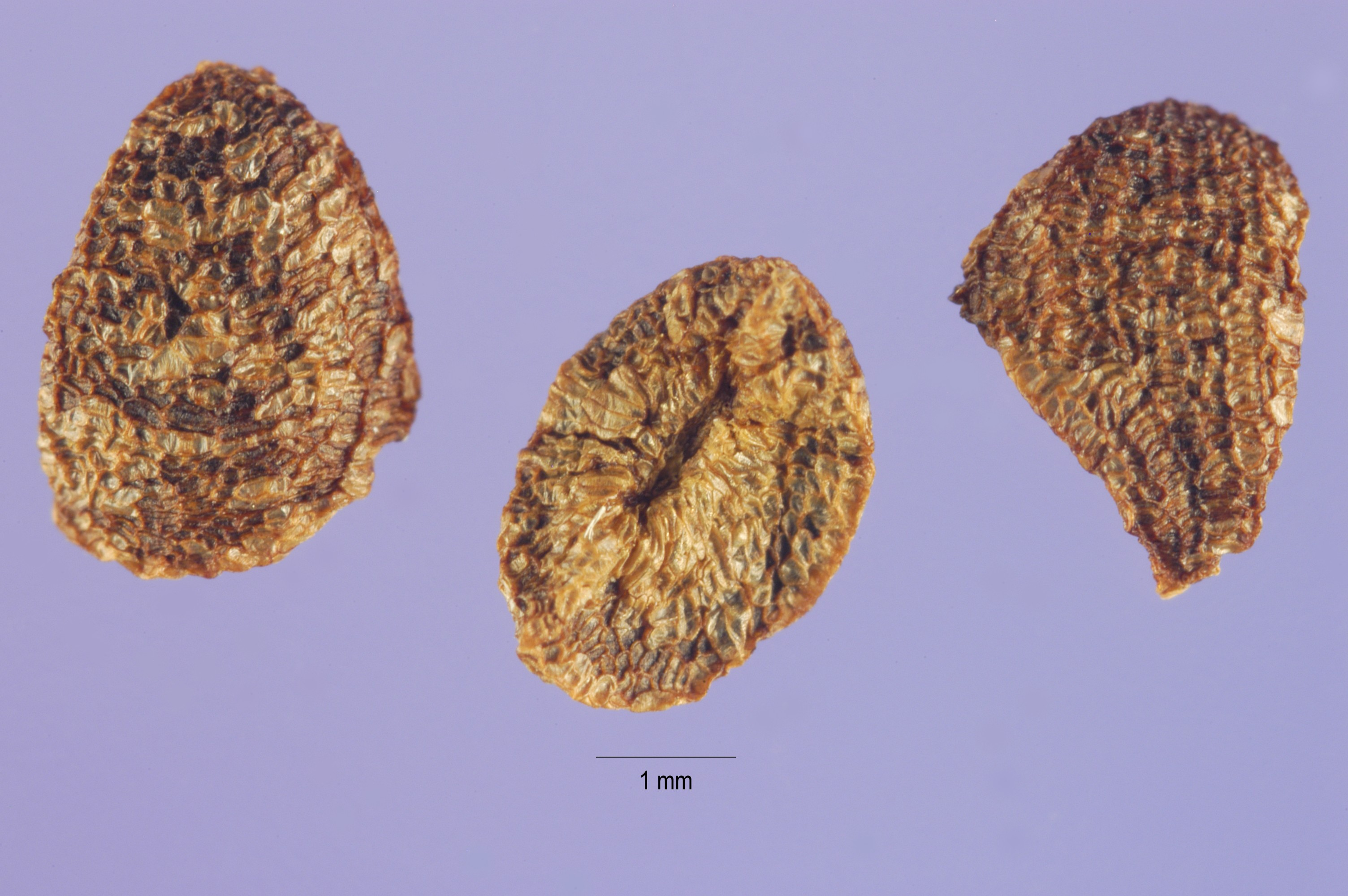 Seeds of Cestrum nocturnum